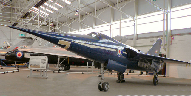 Fairey Delta 2 at RAF Museum Cosford One of only two aircraft of the type built. In 1956 Peter Twiss broke the World Air Speed Record in this aircraft flying it in excess of 1000 mph in level flight, the first aircraft to do so. As with many other innovative British aircraft designs this project was unsupported by Government though several design features involving the delta wing were taken up by others such as Dassault in France and eventually absorbed into the Concord project.